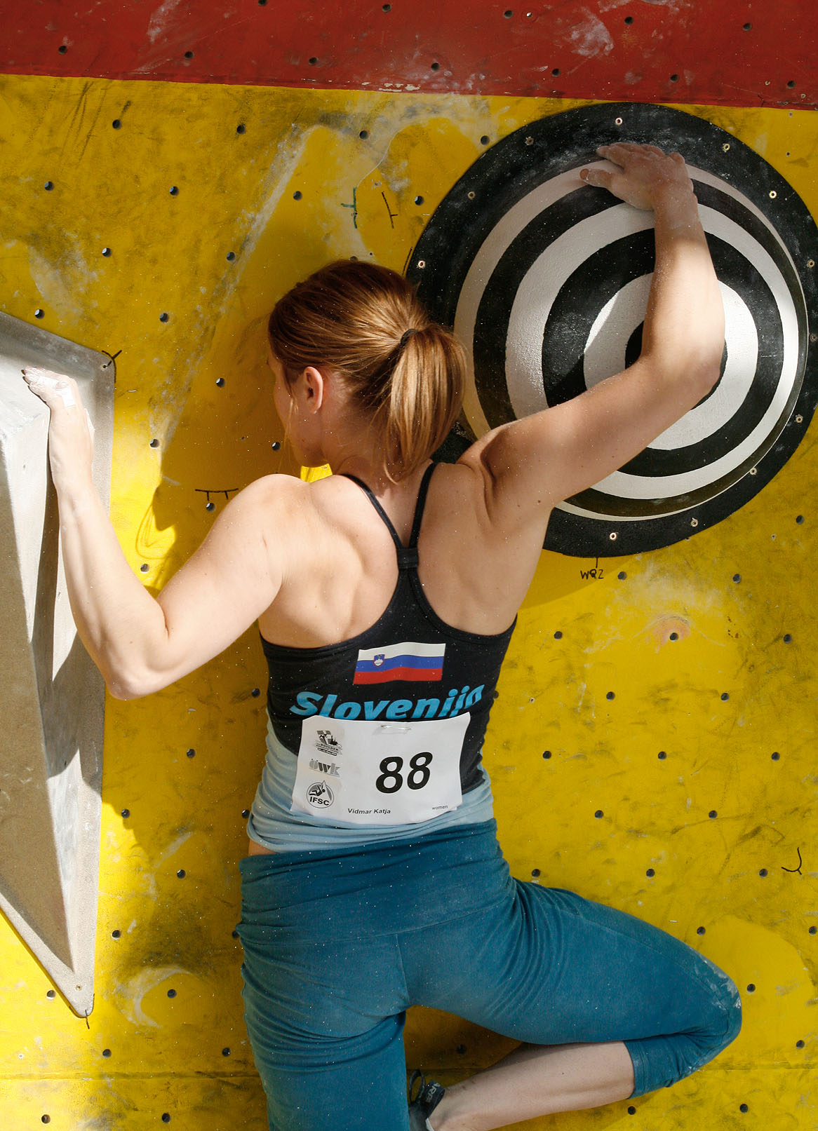 Katja Vidmar during qualifications at the IFSC Boulder Worldcup Vienna 2010.